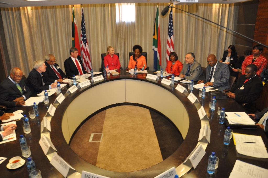 U.S. Secretary of State Hillary Clinton meets with South African International Relations and Cooperation Minister Maite Nkoana-Mashabane for the second meeting of the South Africa-United States of America Strategic Dialogue in Johannesburg, South Africa, on August 7, 2012. [State Department photo/ Public Domain]